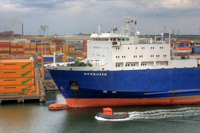 Ro-Ro Terminal, Tees Dock A Tees Foy Boat chugs past M/V Norqueen a 171m vessel operated by P&O Ferries and which thrice weekly plies the route between Teesport and Rotterdam. The Foyboatmen provide mooring services to vessels entering the port. These services range from handling the ropes to emptying the sewage.